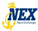 Navy Exchange Logo